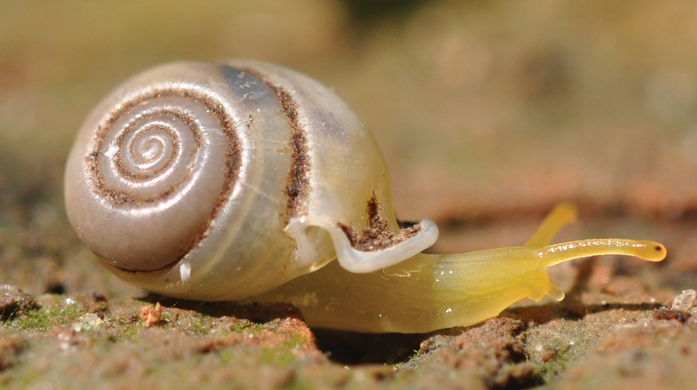 Perrottetia aquilonaria (paratype CUMZ 5004) from the type locality (shell width about 6 mm).